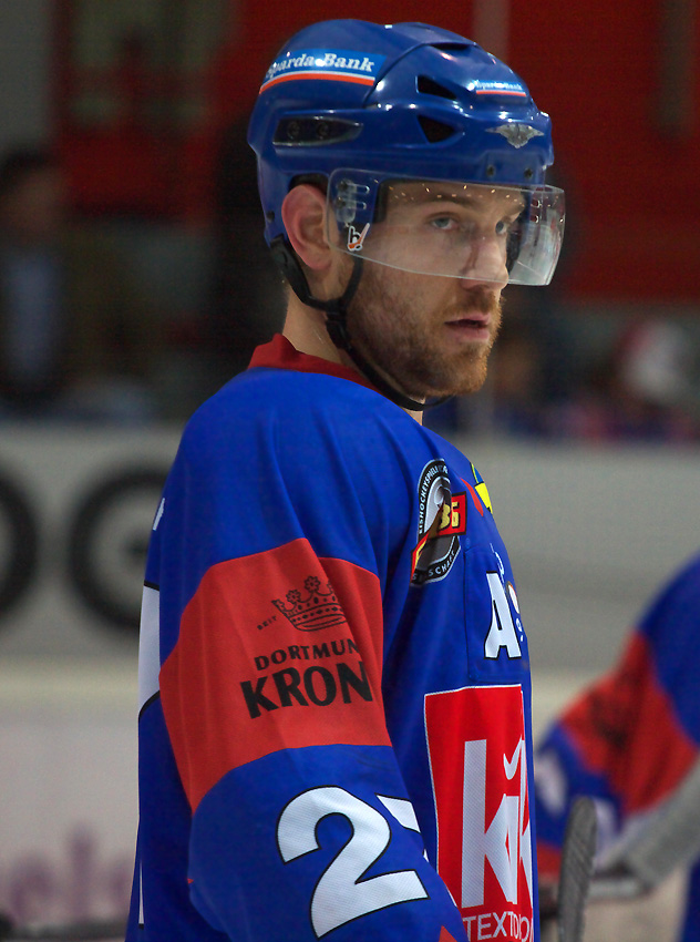 Icehockeyplayer - EHC Dortmund - #27 - T.J. Sakaluk